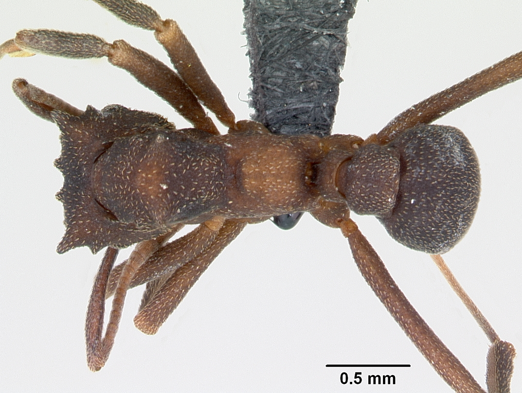 Dorsal view of ant Cyphomyrmex cornutus specimen casent0052778.